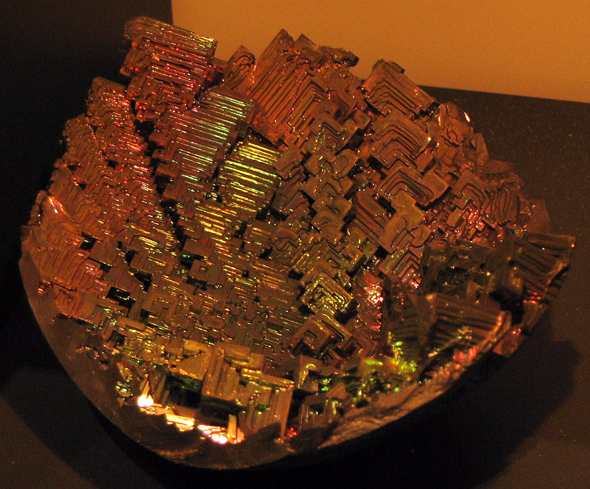 Artificially grown bismuth crystals showing a labyrinthe crystal habit and a iridescent oxidation layer. Photograph taken at the Natural History Museum, London.